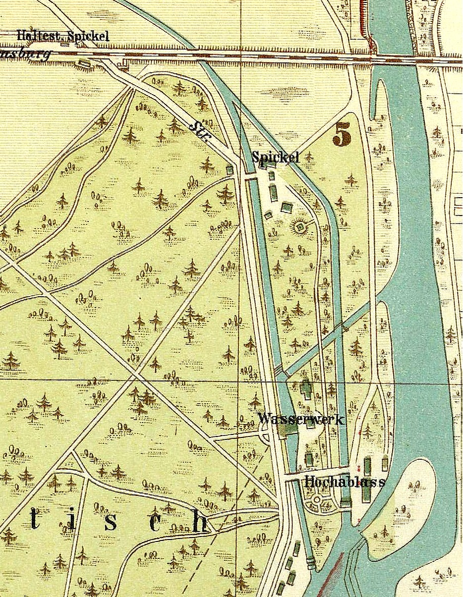 excerpt from map of Augsburg, Staats- und Stadtbibliothek Augsburg